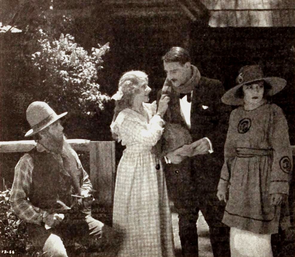 Still from the American western drama film The Valley of Tomorrow (1920) with Harvey Clark, Pauline Curley, Fred Malatesta, and Mary Thurman, on page 72 of the February 14, 1920 Exhibitors Herald.